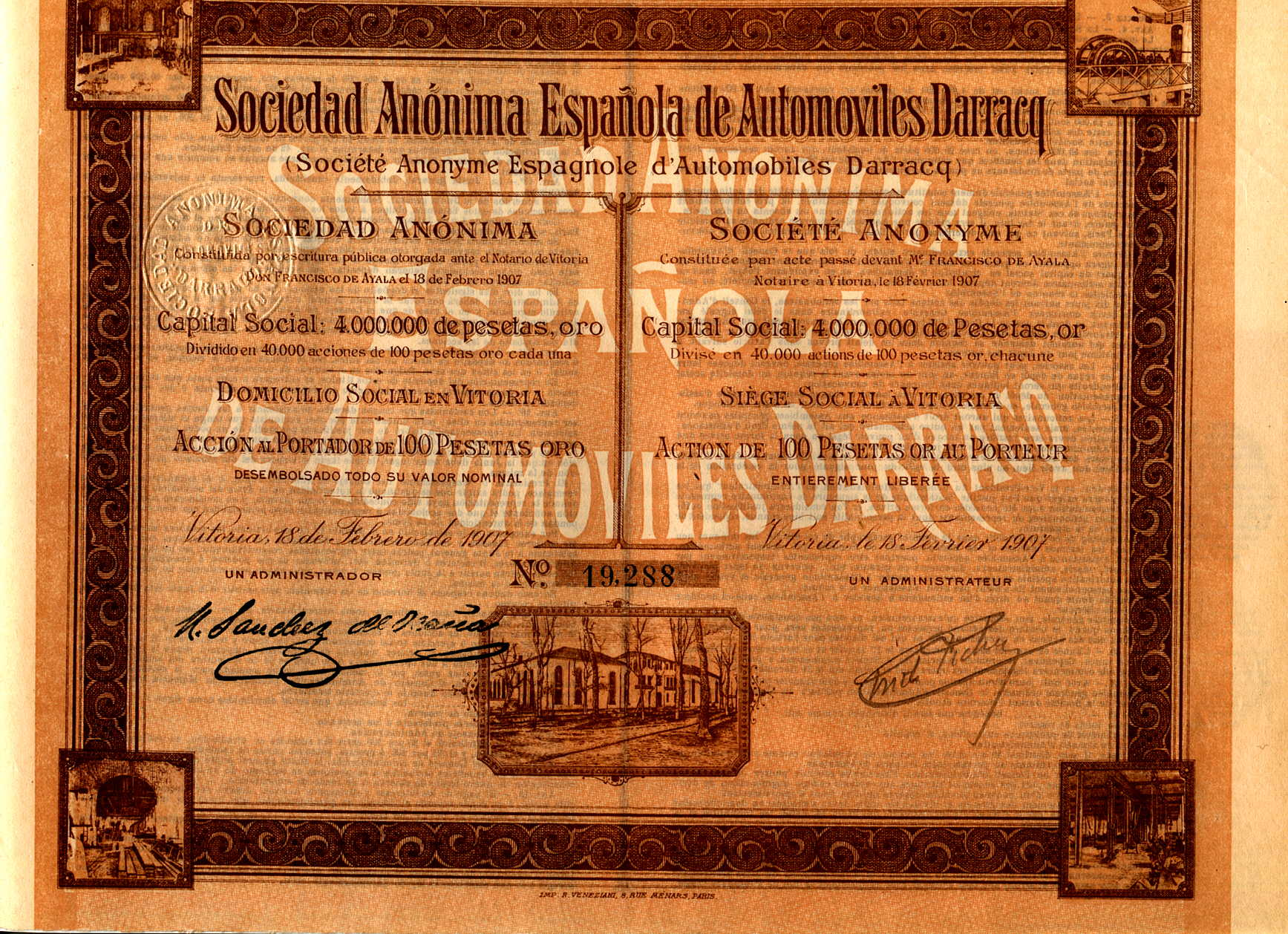 Scan from historic paper taken by user